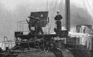 QF 12 pounder 12 cwt gun, mounted on 27-knot destroyer HMS Daring.